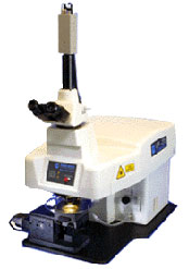 New Wave UP 213 Laser Ablation System